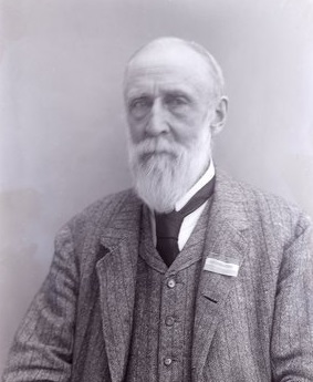 See file name for title. This picture was taken by Colonel Linley Blathwayt and was stored on glass negatives. The Blathwayt's home of Eagle House way the home of Linley, Emily and Mary Blathwayt who all actively supported the suffragette cause. Nearly all the prominient UK suffragettes stayed with them and these photos and dozens of trees were planted to commemorate their visits. Col. Linley Blathwayt took these pictures between 1908 and 1912. He died in 1919. The pictures are made available in larger formats by .